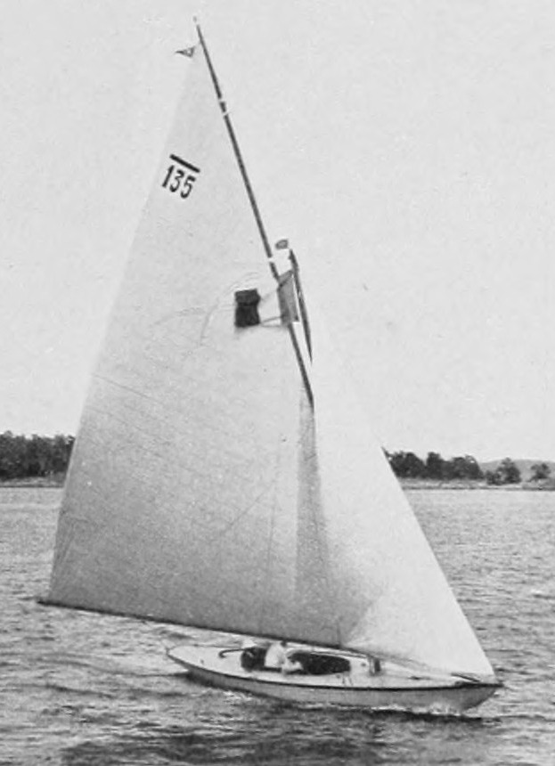 French 6 m class s/y Mac Miche. Gold medallist 1912 olympics